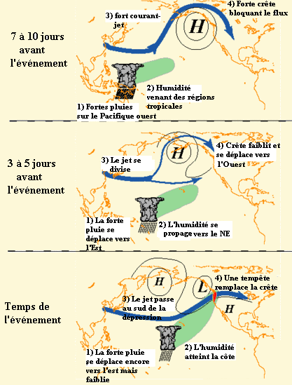 Madden-Julian oscillation effects upon North American weather patterns. Eastward-moving tropical rainfall circulation drives north Pacific Ocean atmospheric circulation changes.